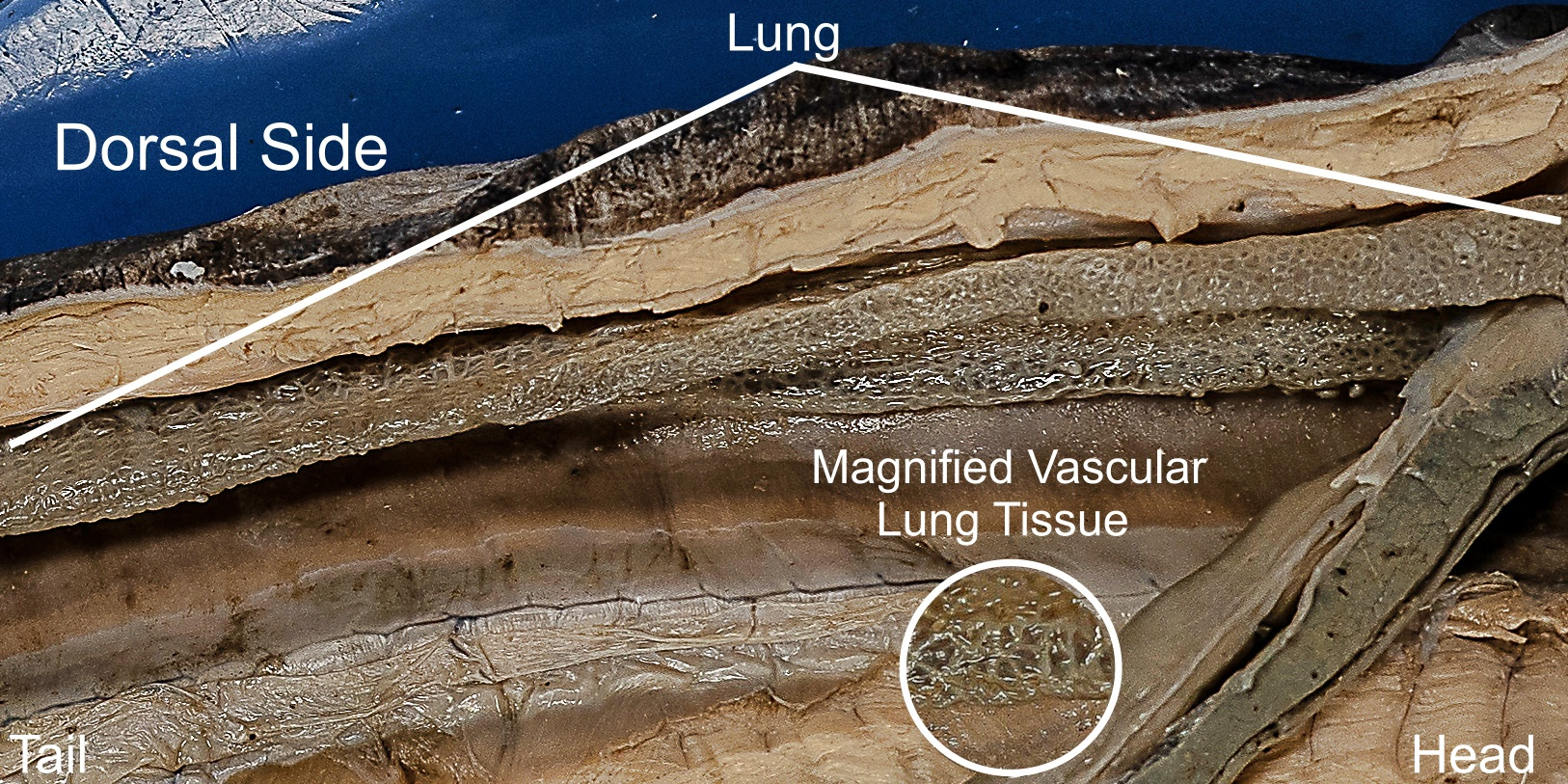 An amphiuma lung with body orientation and a zoomed in image of the amphiuma lung vascular tissue